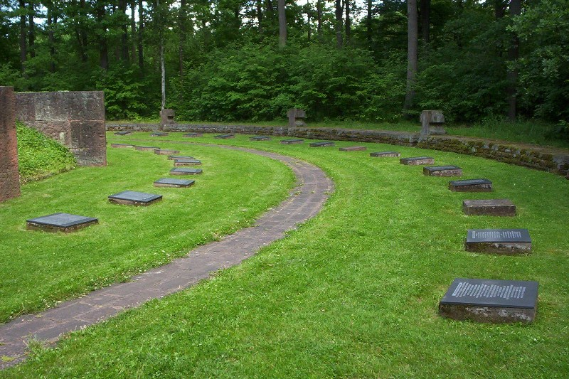 German cemetery from I world war (with German soldiers, exhumated in 1990 and buried here), Joachimów-Mogiły, central Poland. Theese are tablets from 1990 with names of soldier buried then.